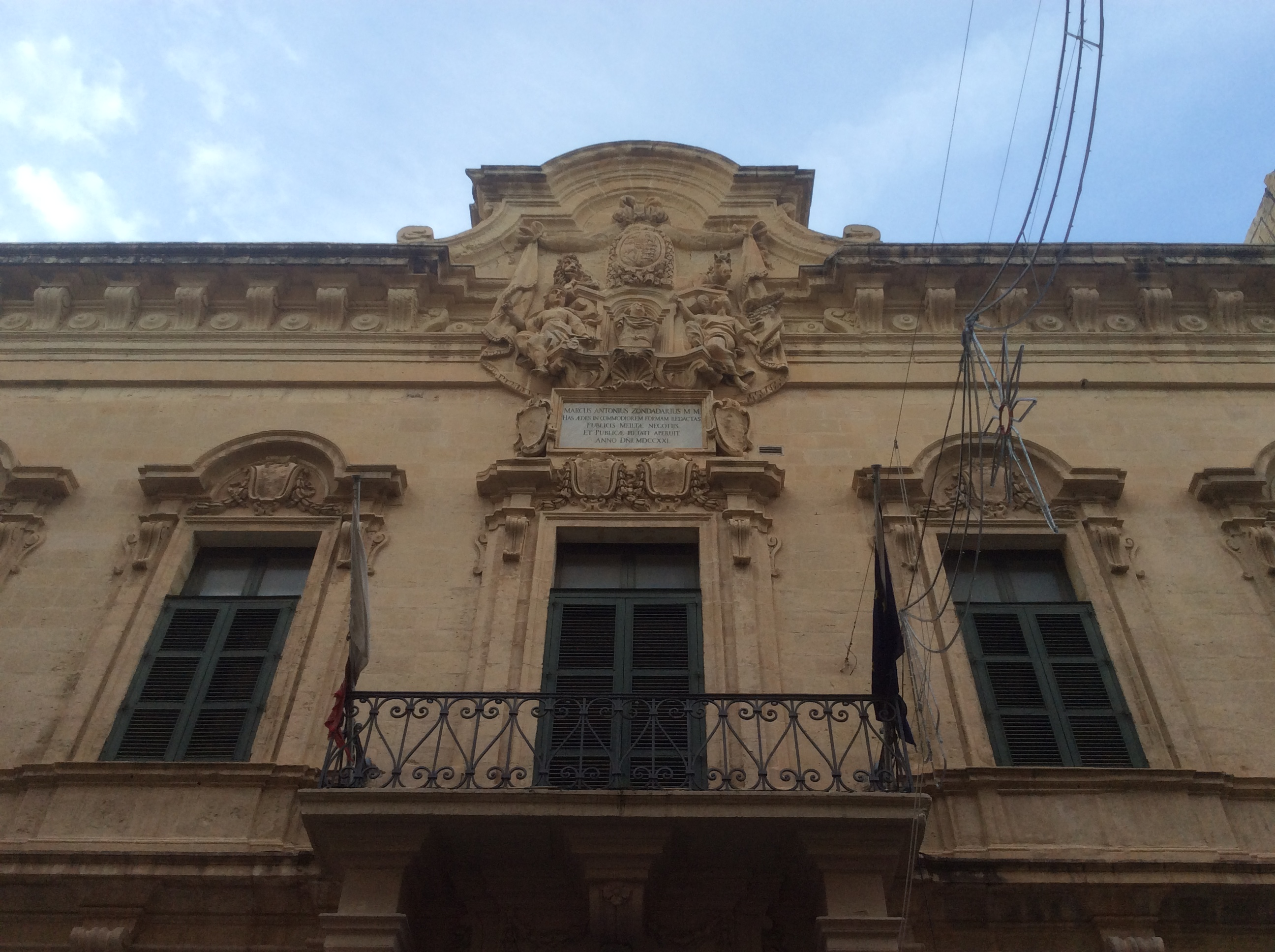 Valletta building after restoration - xmas decorations orevented from taking whole façade